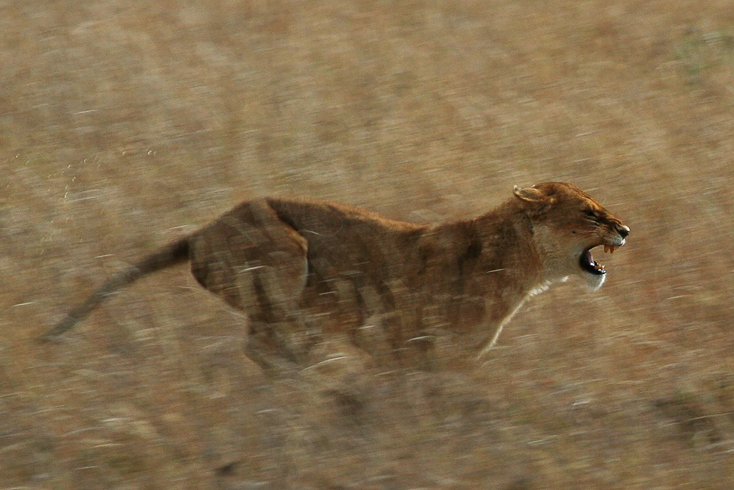 a lioness hunting worthogs in the western corridor of the Serengeti